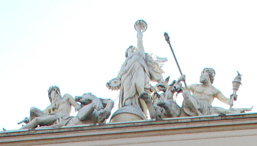 Allegorical group by Gyula Bezerédi (1858–1925) on top of the main entrance of the Keleti railway station in Budapest